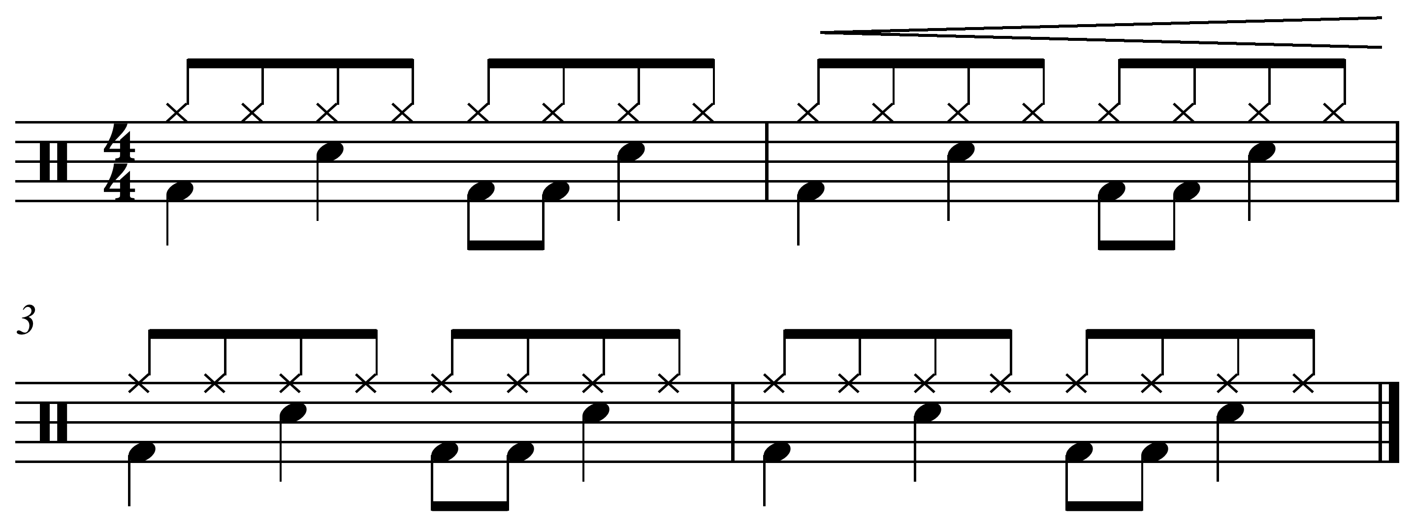 Hi-hat "crescendo" from closed to open leading to the ride cymbal.